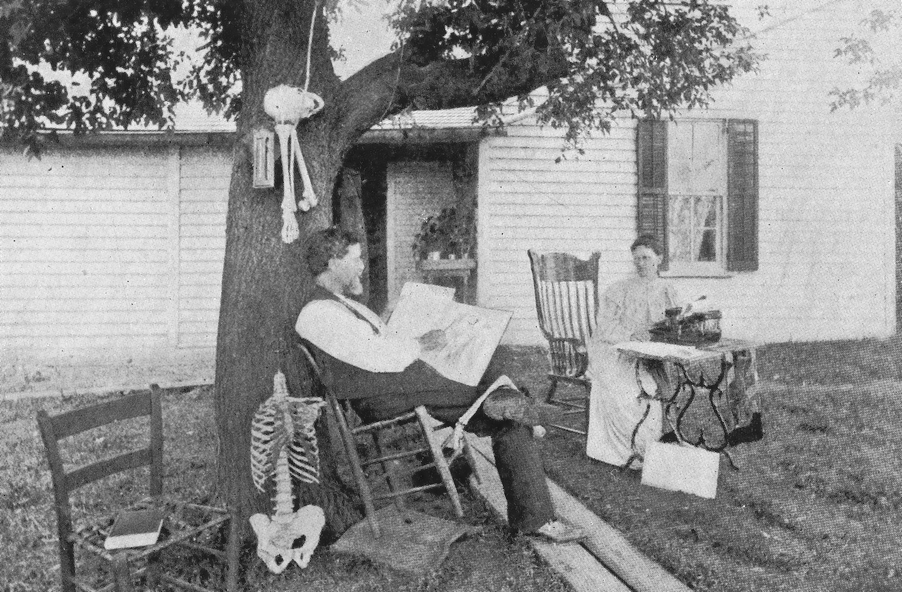 Dr A.T. Still and Mrs Annie Morris his amanuensis. Mrs Morris' residence in the background, where Dr Still studied many of the problems of Otseopathy. Wellcome Images Keywords: Osteopathic Medicine; Andrew Taylor Still; Osteopathy